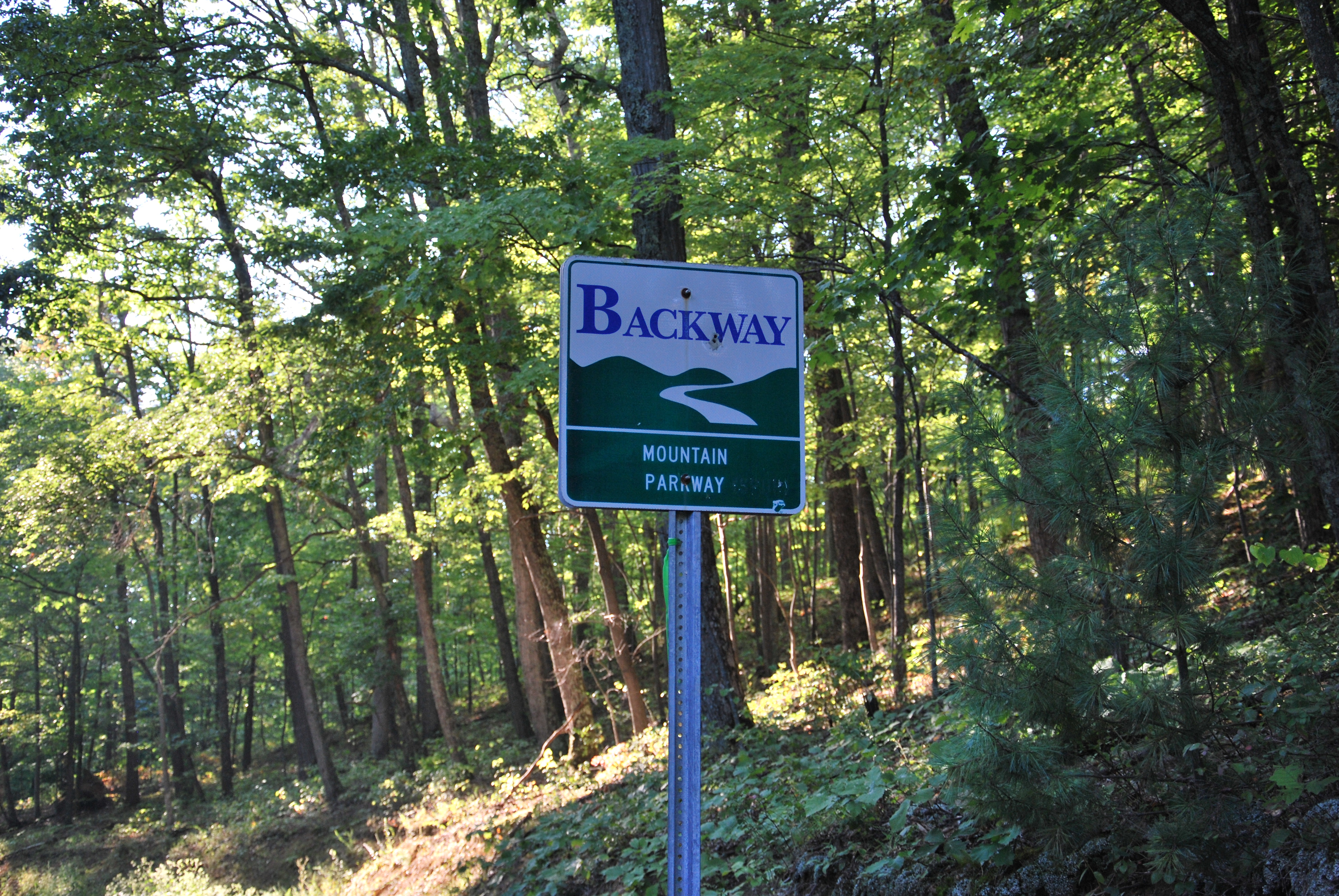 Sign for Mountain Parkway Backway in Webster County, West Virginia.